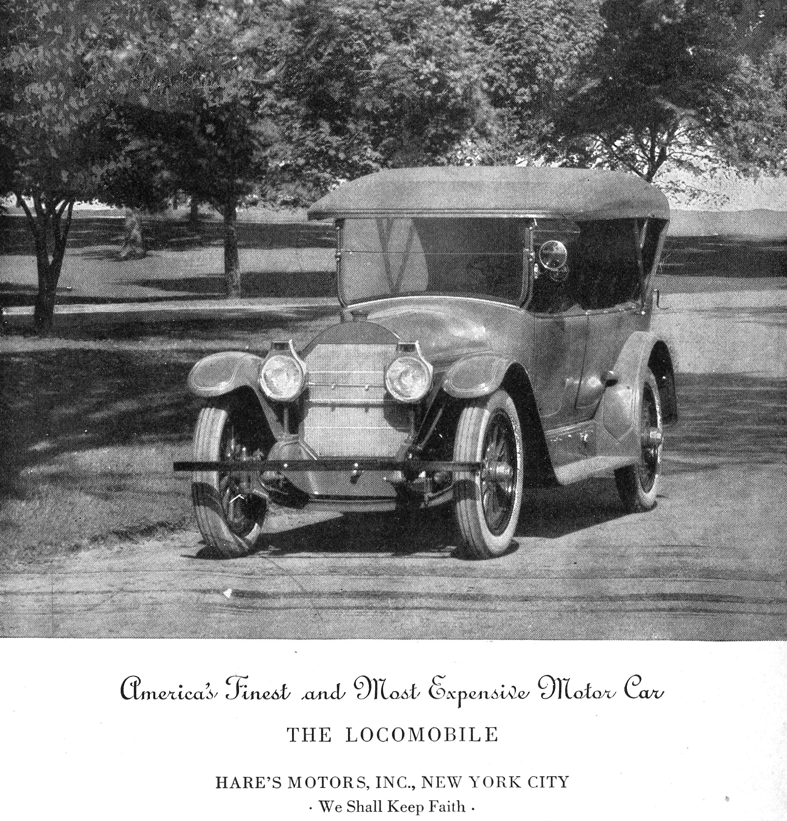 1920 Locomobile. Locomobile advertised "America's Finest and Most Expensive Motor Car" in the June 1920 National Geographic. Looking at the photo on the computer, I notice that it has a front bumper. None of the other cars advertisied in the magazine that I found, during a trip to the basement to change a furnace filter, is shown with bumpers.